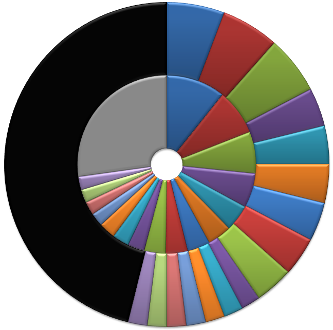 Result of the 2004 Philippine House of Representatives party-list election. Proportion of votes (inner ring) as compared to proportion of seats (outer ring) of the political parties.